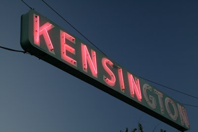 Kensington neighborhood sign in San Diego, California